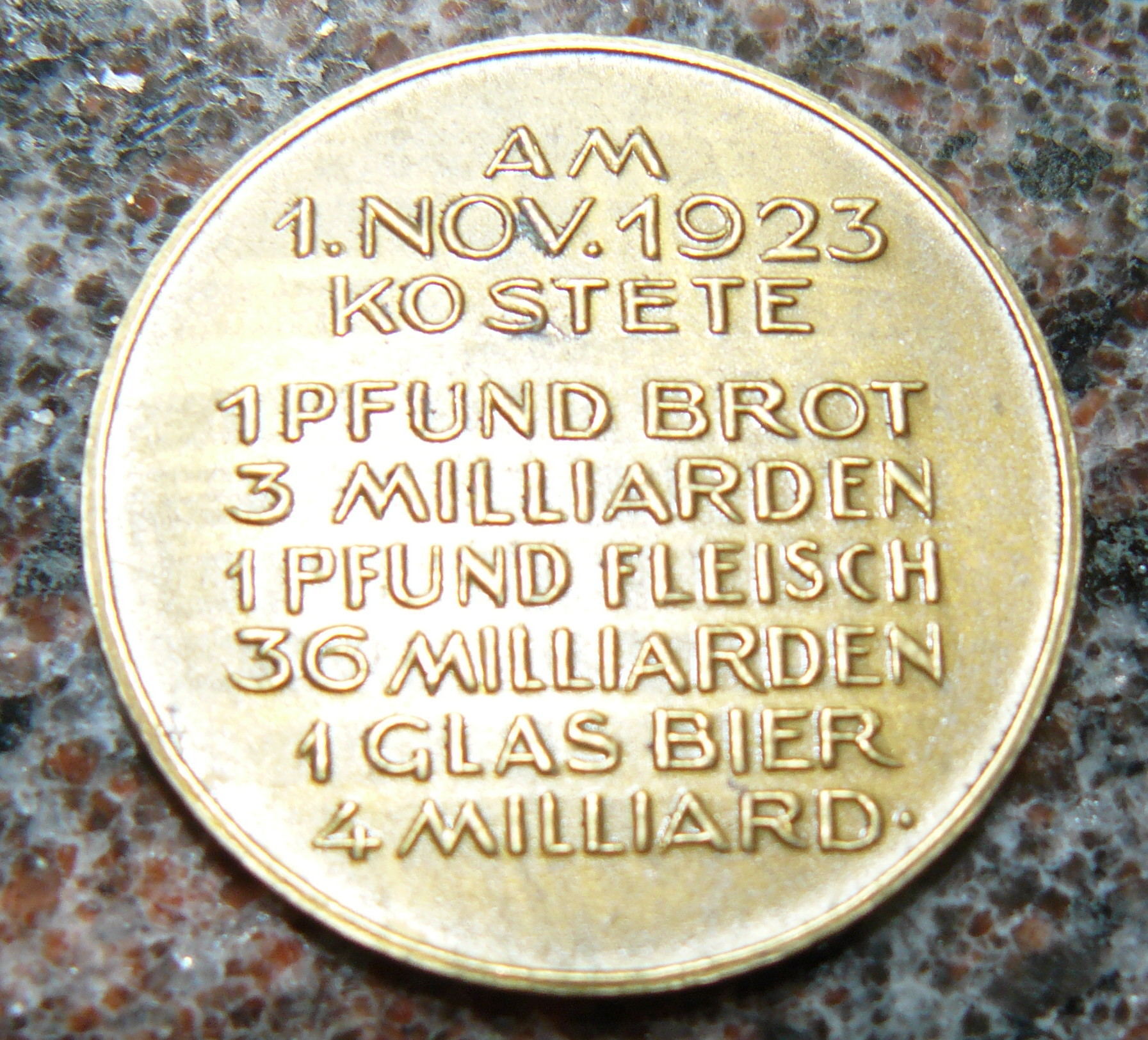 Photograph of a medal commemorating Germany's 1923 hyperinflation